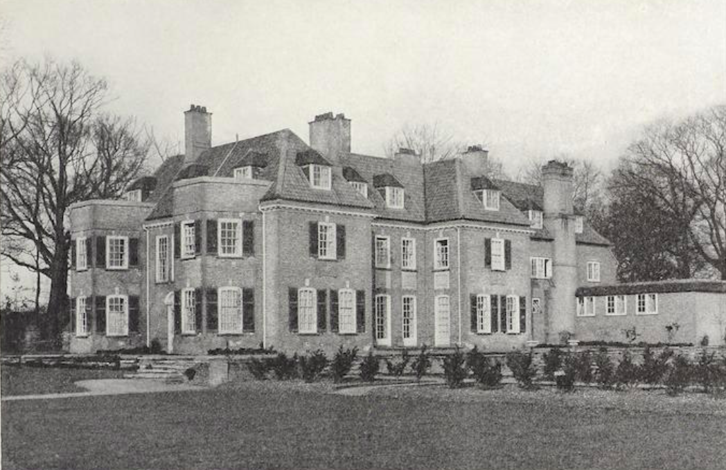 Sprowston Court, Norwich, by Oswald Partridge Milne. From The Studio Yearbook of Decorative Art 1912